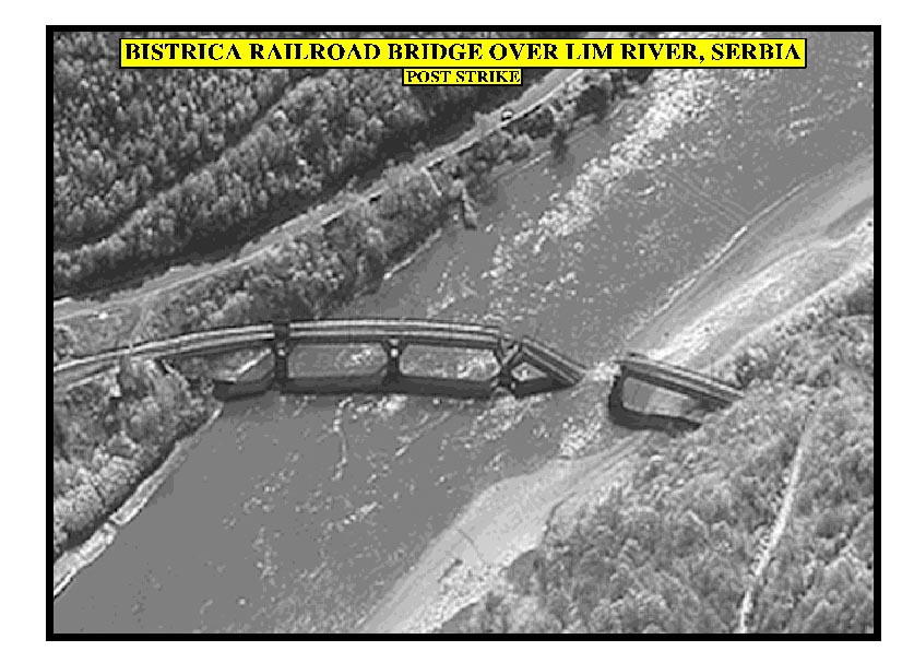 Damge due to Aerial strike, April 13 1999